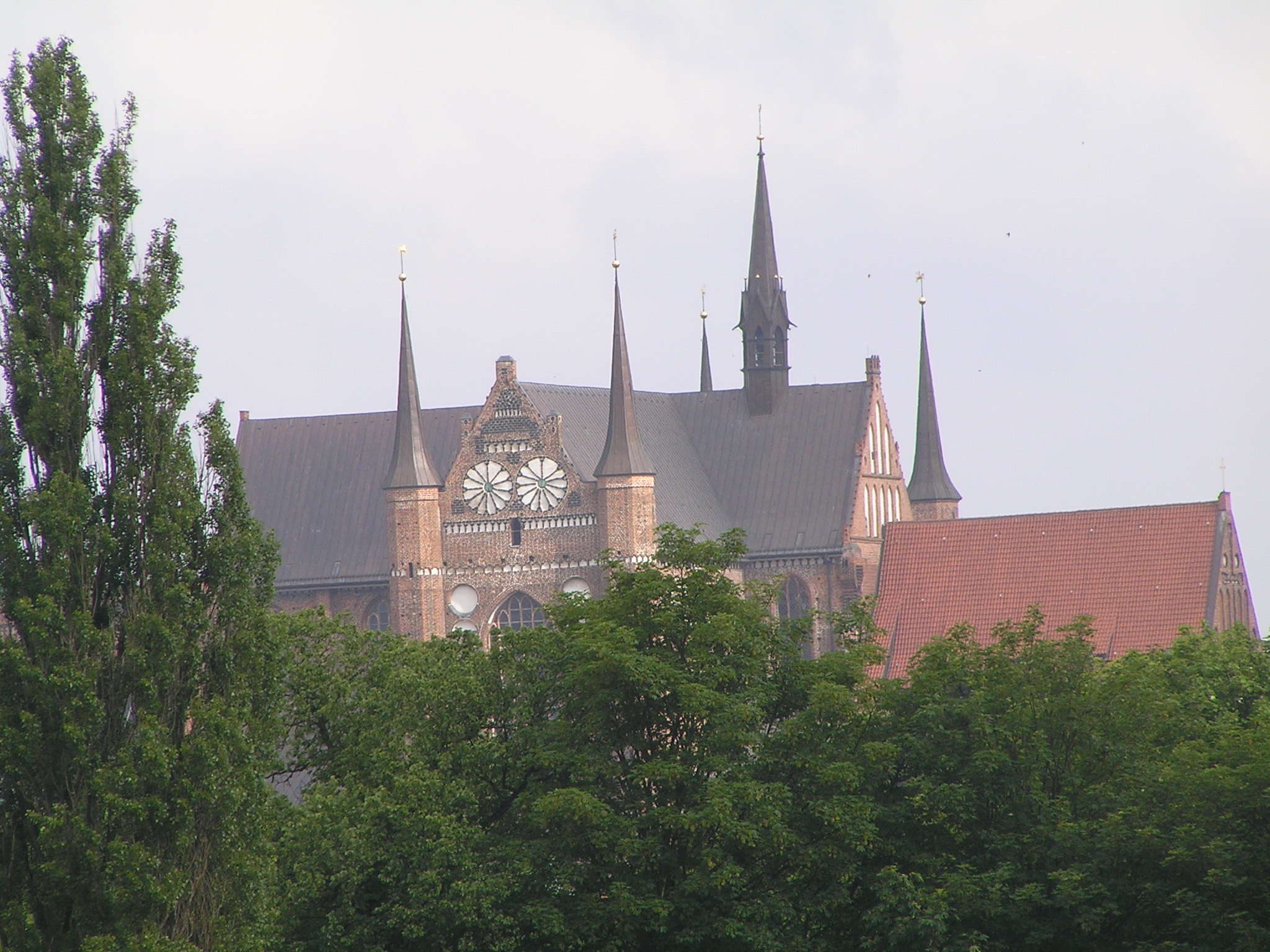 View at curch St.-Georgen from south side in Wismar (Germany)